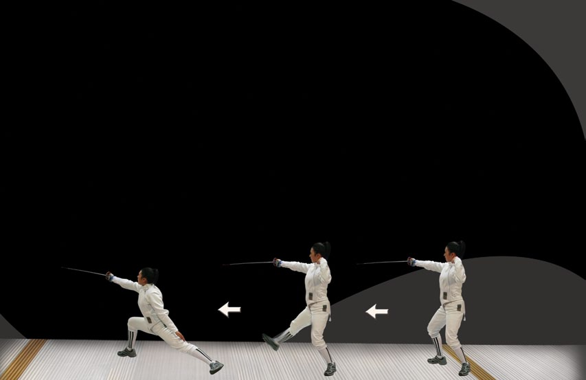 fencing (épée)